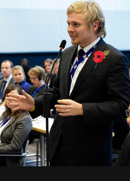 David Pontoppidan speaking at the German Bundestag, Berlin